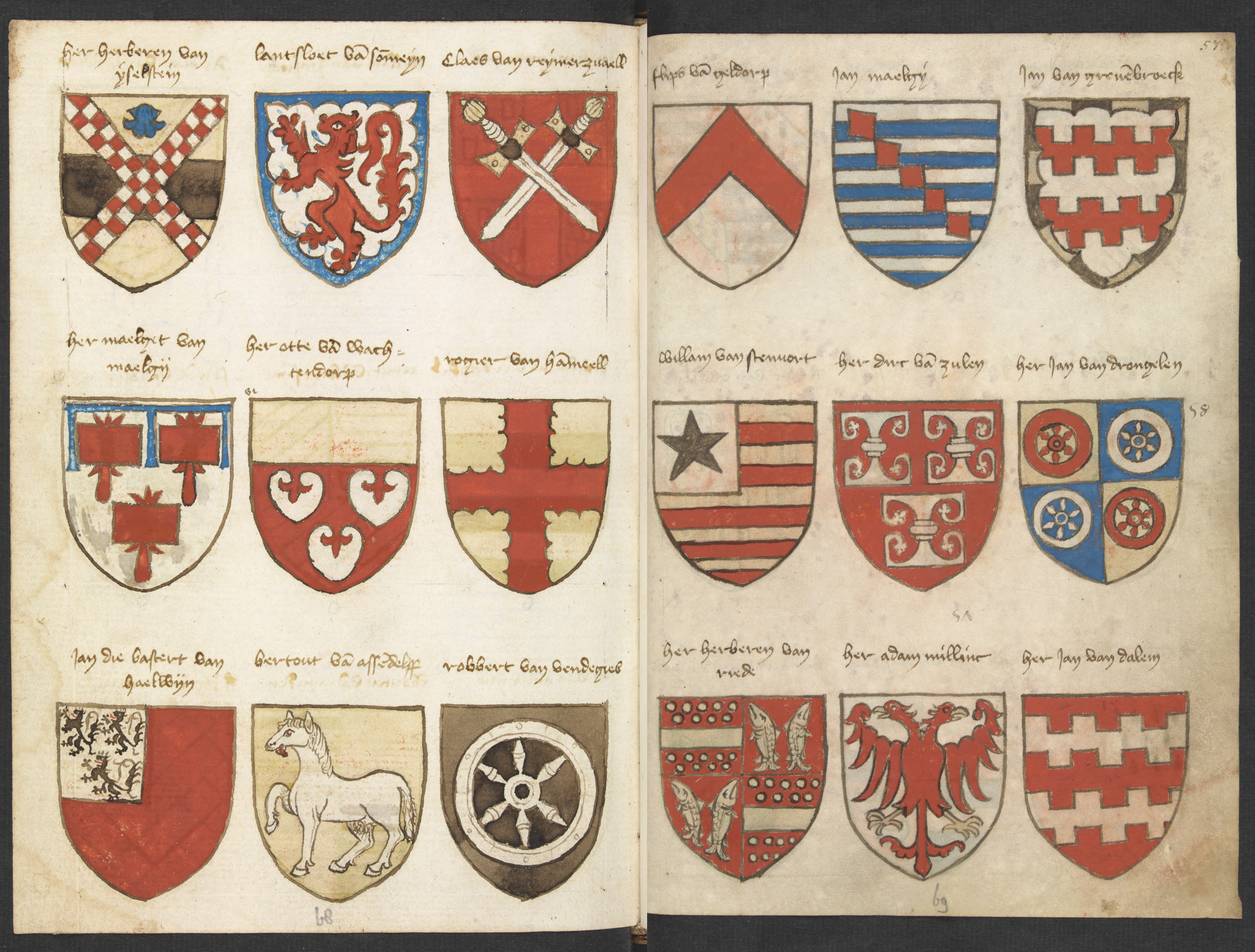 Lefthand side folio 056v; righthand side folio 057r from the Beyeren armorial / Wapenboek Beyeren